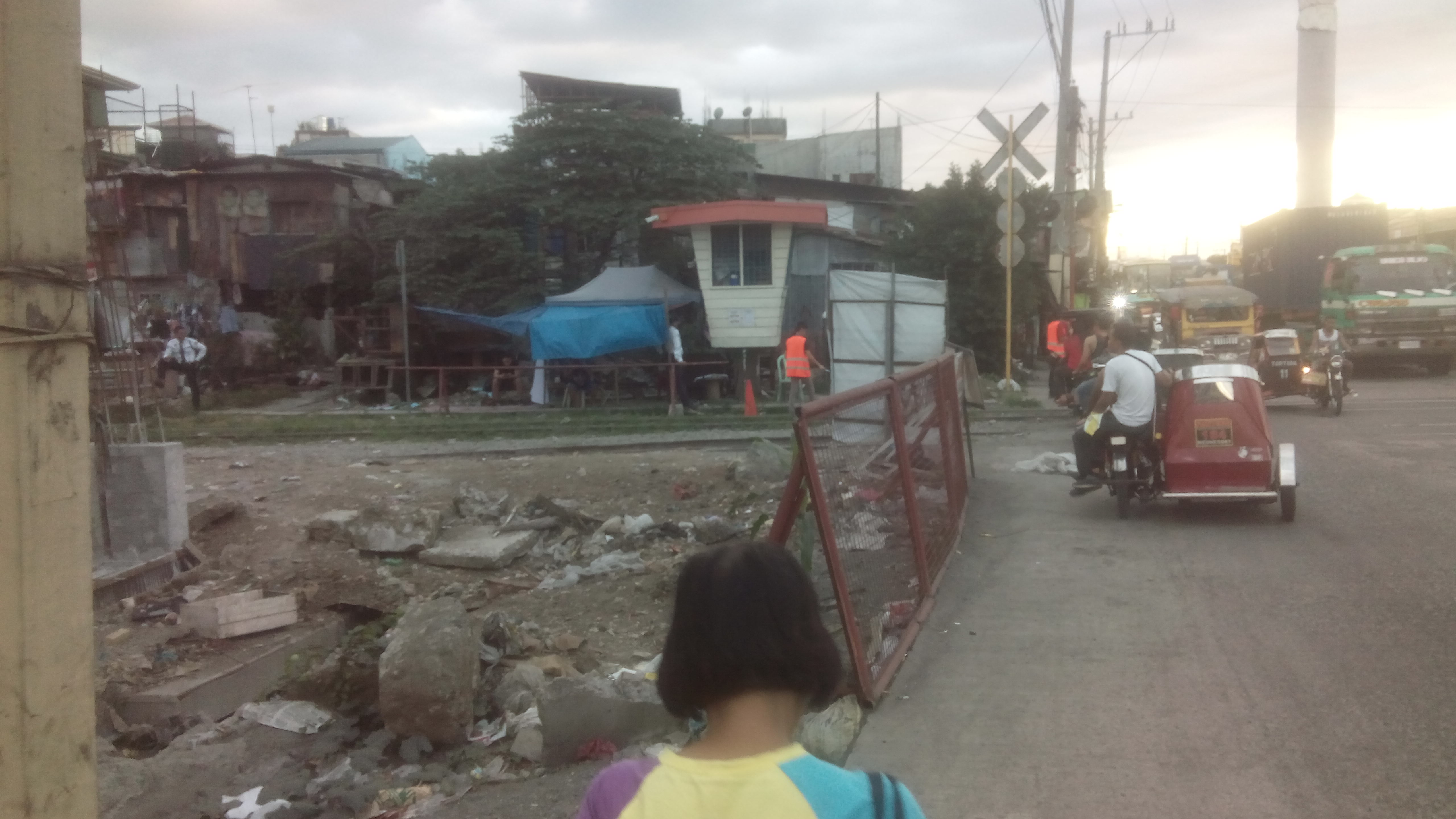 A view of the unrealized but utilized (due to no station structure and its Flagstop station nature) 5th Avenue Railway Station under the Philippine National Railways.